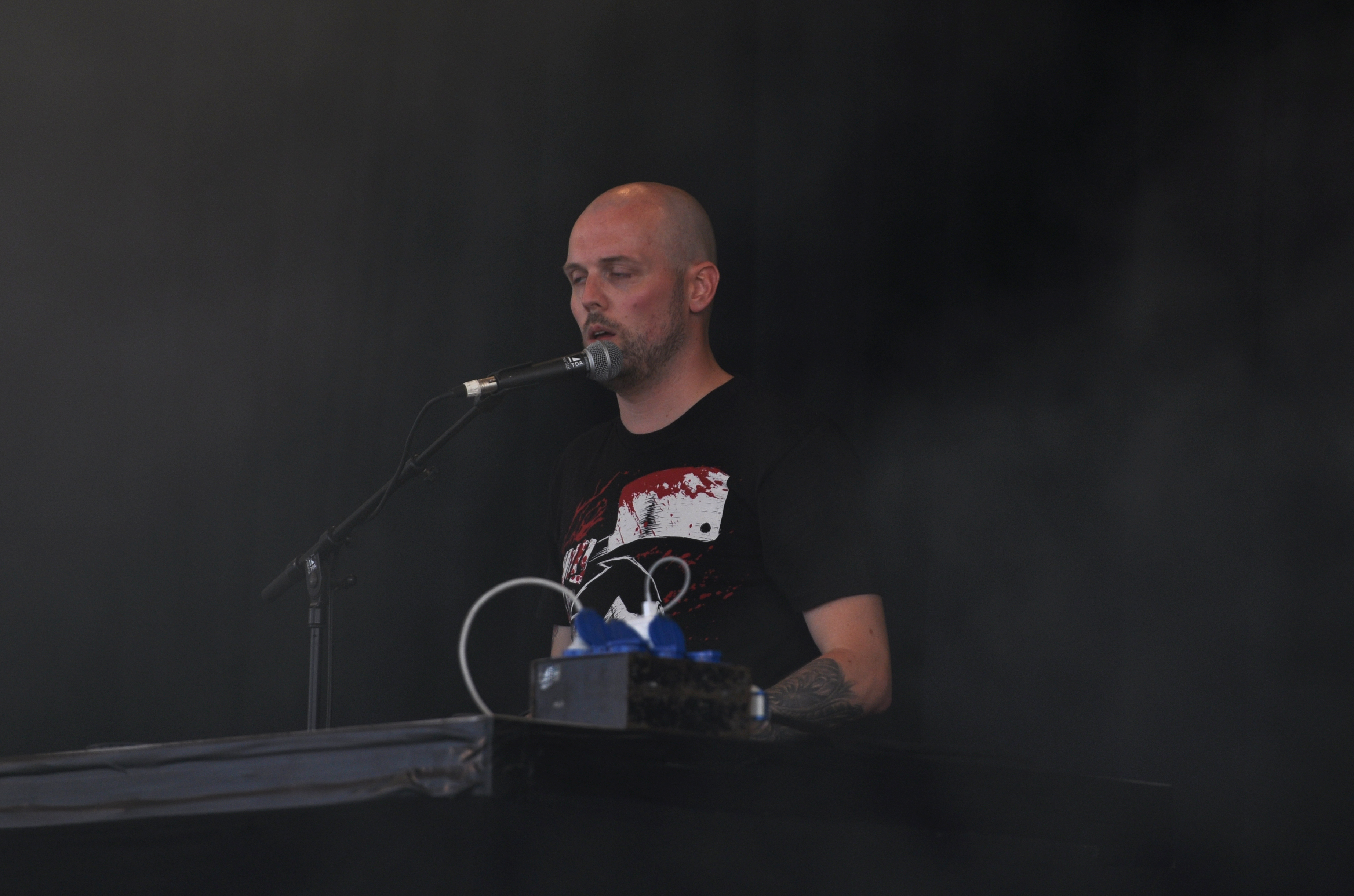 Icon of Coil at the Amphi Festival 2013, Cologne, Germany